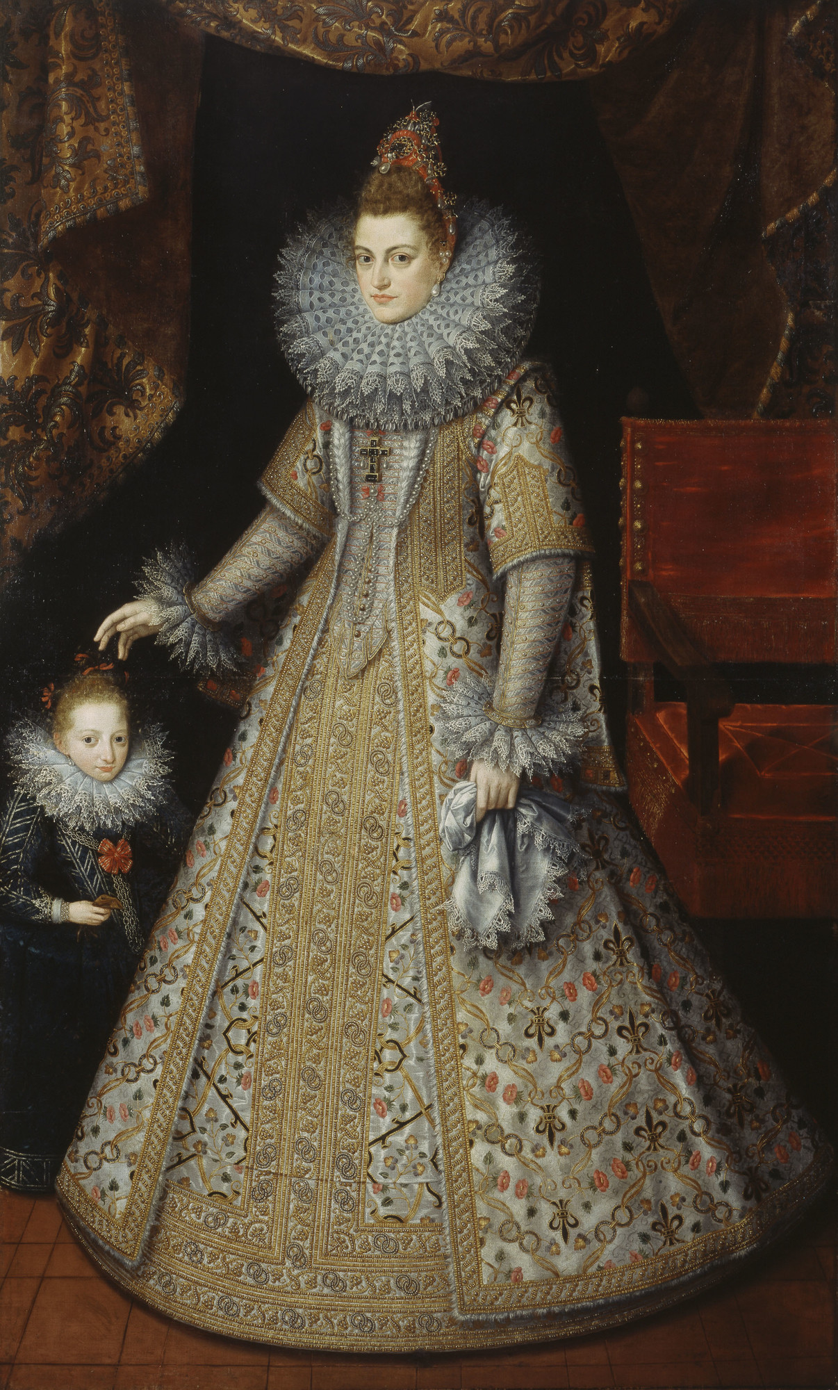 The sitter here was the daughter of Philip II of Spain who in 1599 married her second cousin, the Archduke Albert; the couple, known as ‘the Archdukes’, ruled the Spanish Netherlands as representatives of the Spanish crown, but with the power to establish a dynasty there. Unfortunately the couple were childless and the hopes engendered by their enlightened rule proved groundless. This portrait was given to Anne of Denmark (James I’s Queen) in 1603 by the Ambassador of the Spanish Netherlands, Charles de Ligne, princely count Arenberg, along with one (now lost) of the Archduke Albert. This occurred at a time when James I was seeking accommodation with those regarded as the enemy by Queen Elizabeth. The portrait was recorded in 1649 with a varied and important set of foreign and British royal portraits in the Cross Gallery at Somerset House, the Queen’s London residence. Soon after this it came to be described as Anne Boleyn with Princess Elizabeth and Catherine of Aragon with Princess Mary. The costume is clearly that of the Spanish and not the English court and the small figure is not a child but a dwarf. Though the identity of the sitter and circumstances of the acquisition are well documented the attribution to Frans Pourbus the Younger remains conjectural. This may be the portrait (or at least a version of the portrait) for which Frans Pourbus was paid in 27 June 1600. It seems to match his style better than that of the other names suggested in connection with it: Pantoja della Cruz, Otto van Veen and Gysbrecht van Veen.